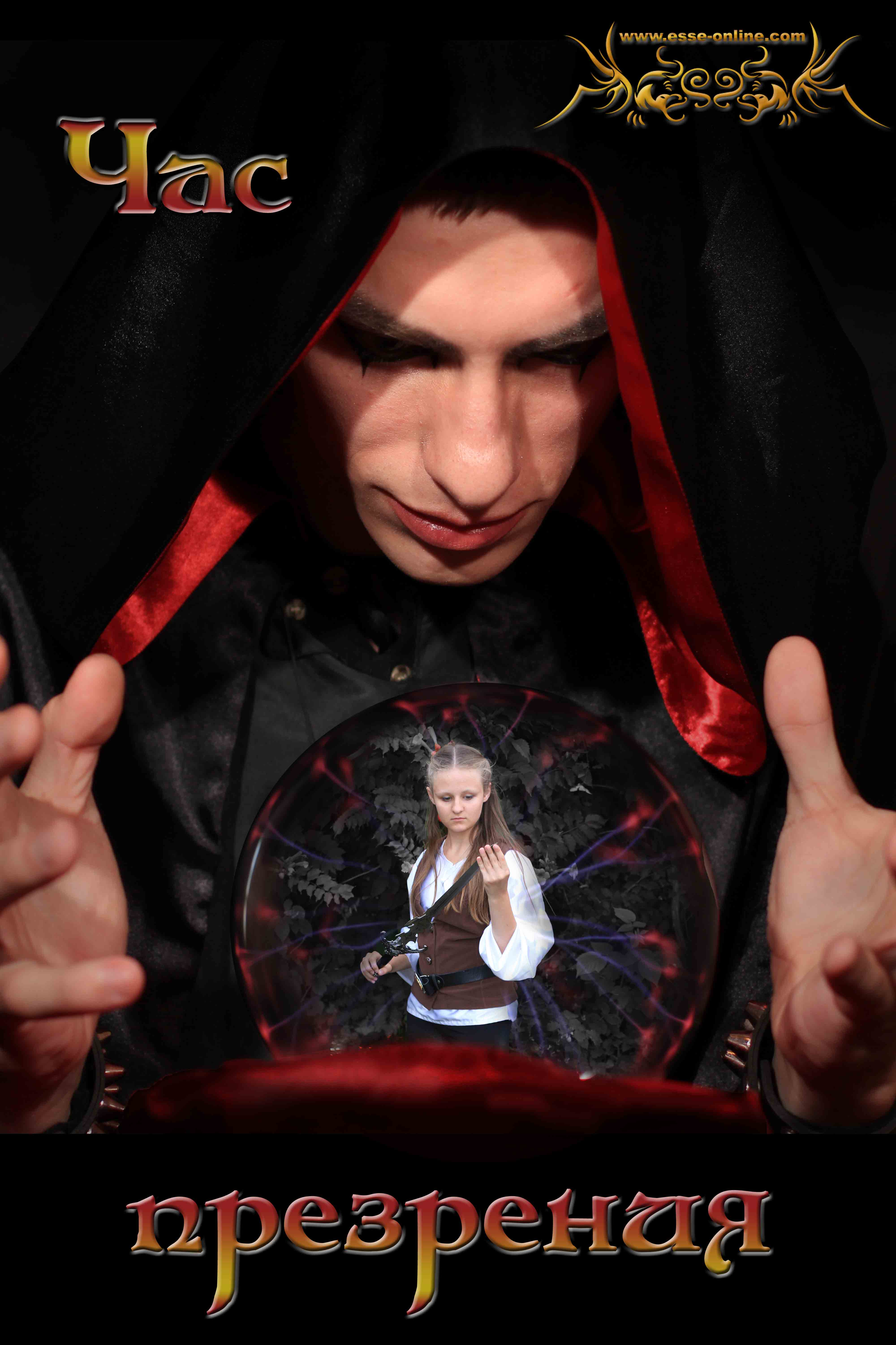 "Times of Contempt". Fantasy rock musical "ESSE" -"The Road with No Return", based on the saga of A. Sapkowski "The Witcher". Official poster. Scene 8. Symphonic rock-group "ESSE". Yury Sklyar (Vilgeforz of Roggeveen), Darya Pronina (Cirilla Fiona Elen Riannon' (Ciri or the lion cub of Cintra), Zireael. Swallow). (Poster - Anastasia Vorotnikova. Photo - Yuri Osadchy.)